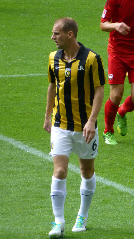 Frank van der Struijk during a pre-season friendly between Vitesse and Bayer 04 Leverkusen in GelreDome